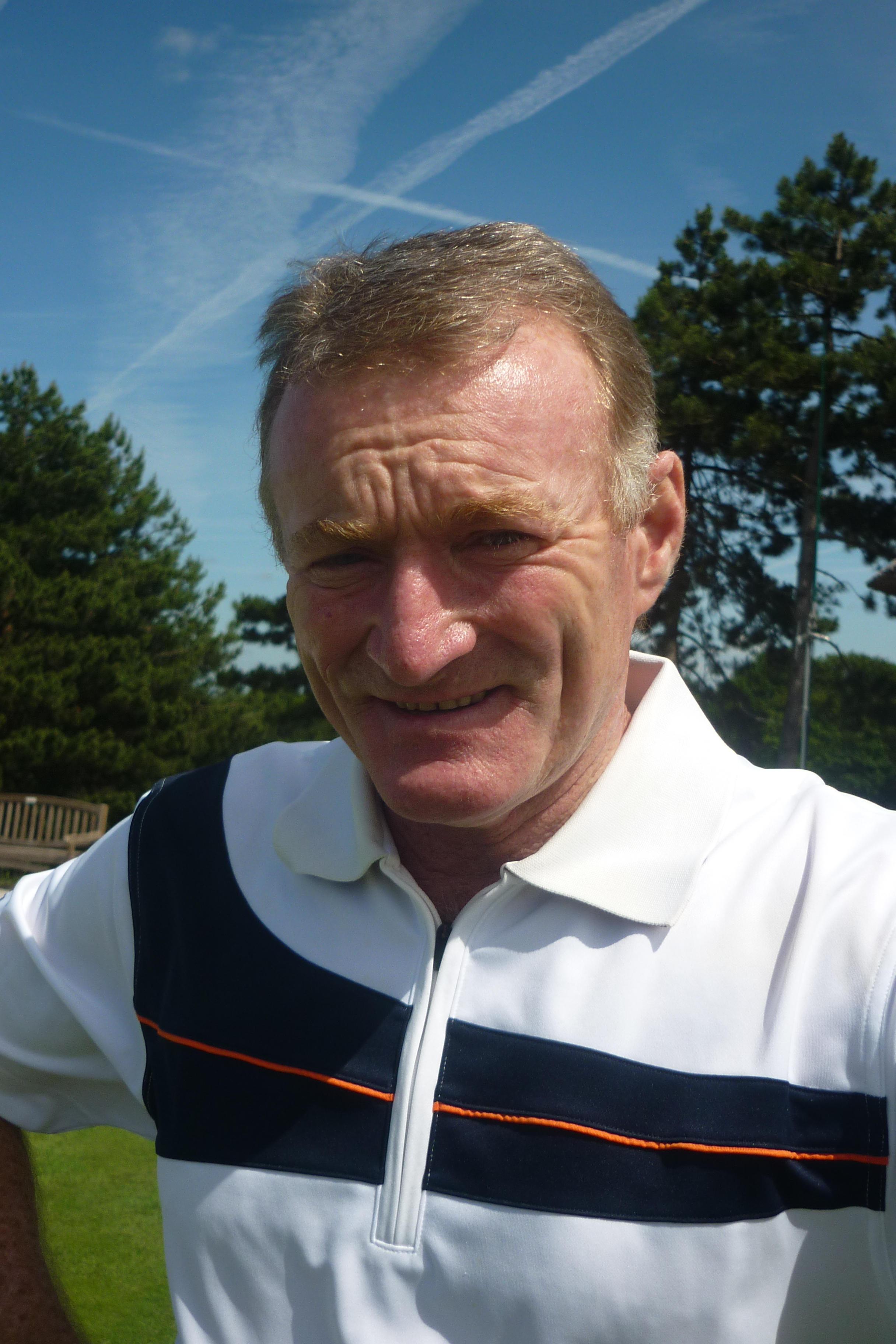 Chris Williams at the Dutch Seniors Open